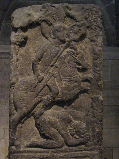 Tombstone of Flavinus, Roman Standard Bearer - detail. See 646986.